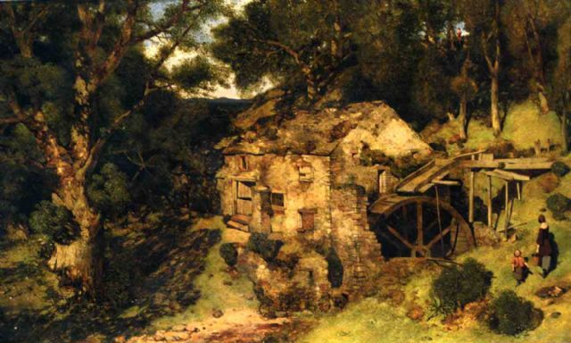 landscape painting by William James Blacklock (d 1848)